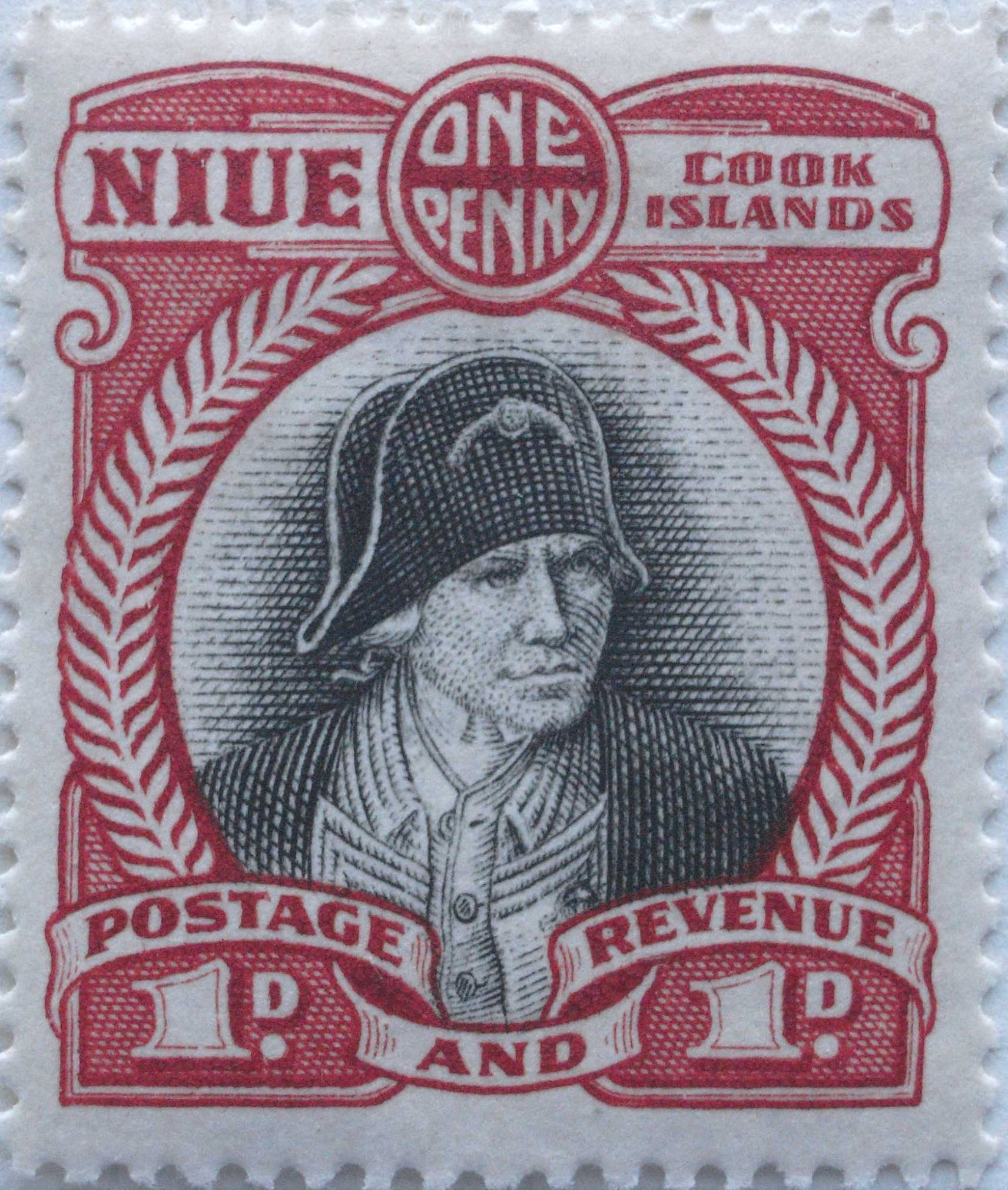 Postage stamp of the Niue, portrait of James Cook, 1 penny (1932), Froede catalogue 1941, Niue#47; Scott 54; Gibbons 56